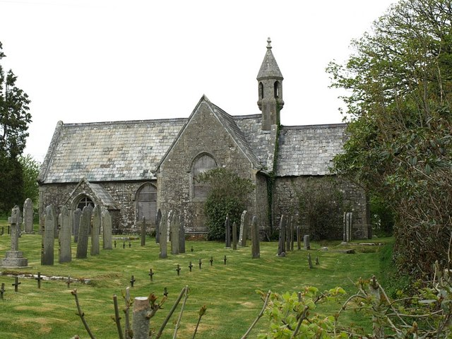 Holy Trinity Church, Bolventor The church dates from 1848. It became cut off from the main part of the hamlet when the A30 dual carriageway was built, and closed in the 1990s. By the main gate is a planning application (dated April 2008) to convert it into 3-bedroomed residential accommodation. The churchyard is obviously well looked-after.